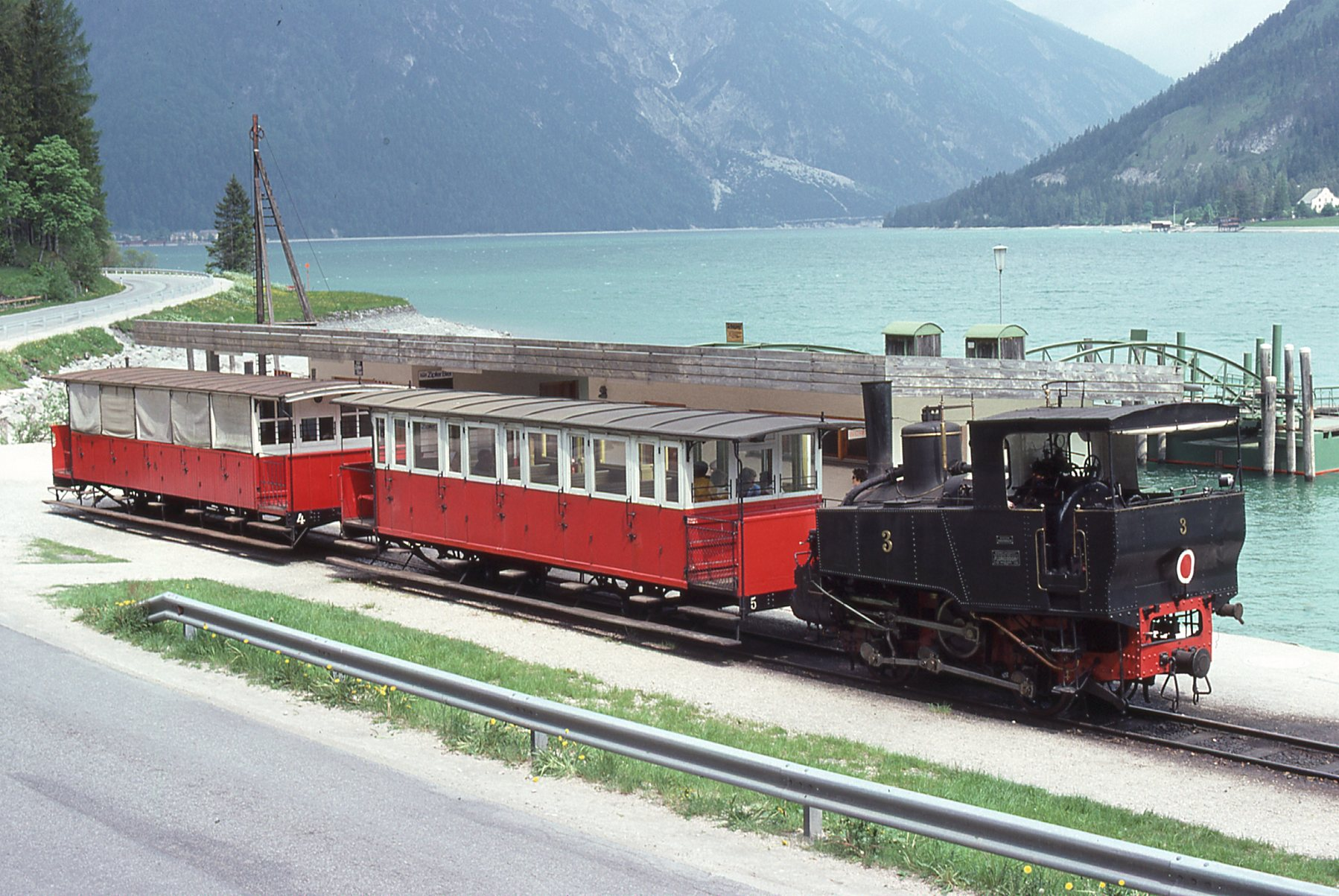 Achenseebahn No.3 at Seespitz terminus. The train usually consists of a closed and a semi-open carriage. At the station passengers can change to the boats on the lake.